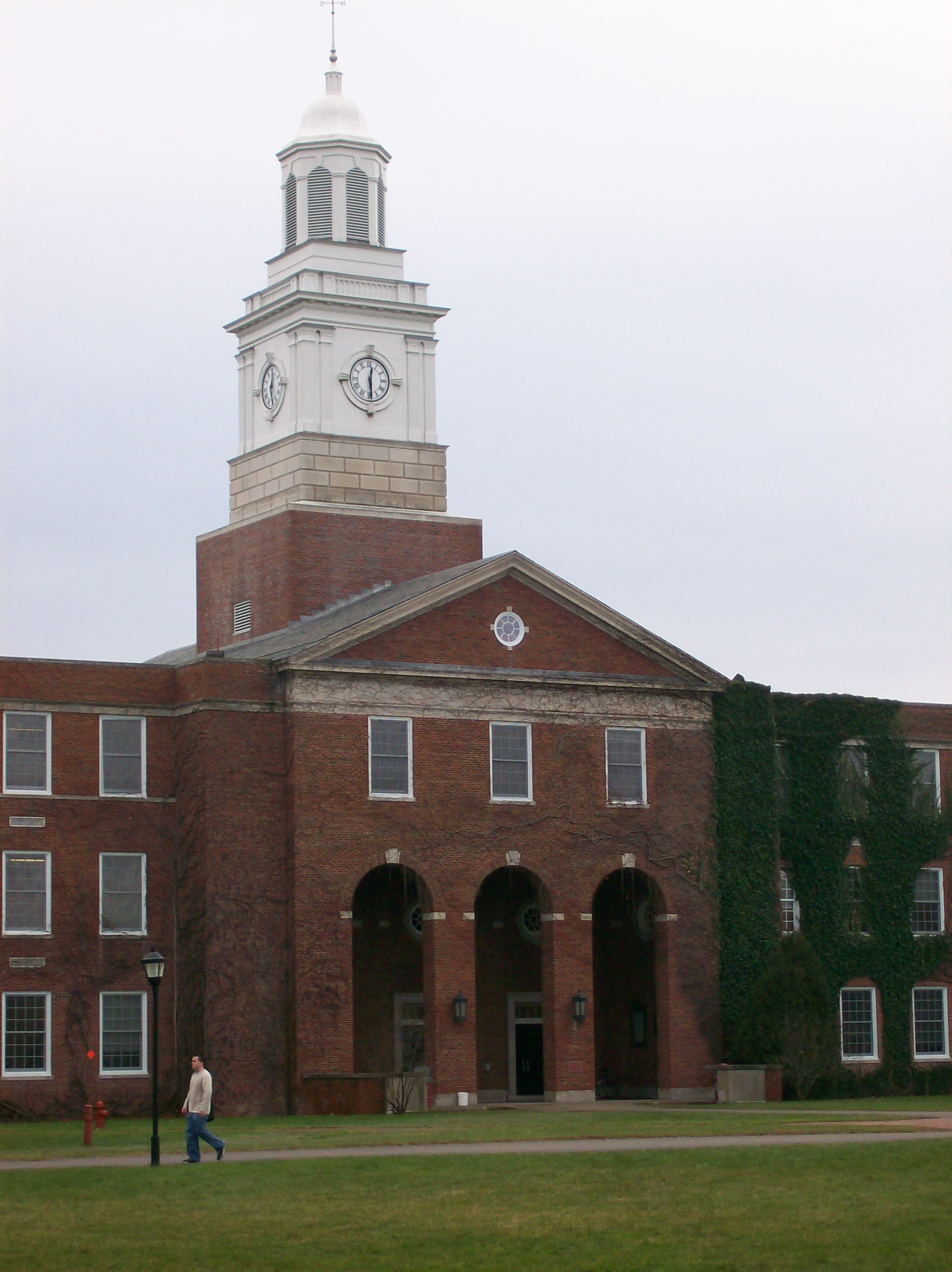 Saterlee Hall at State University of New York at Potsdam in Potsdam, New York.